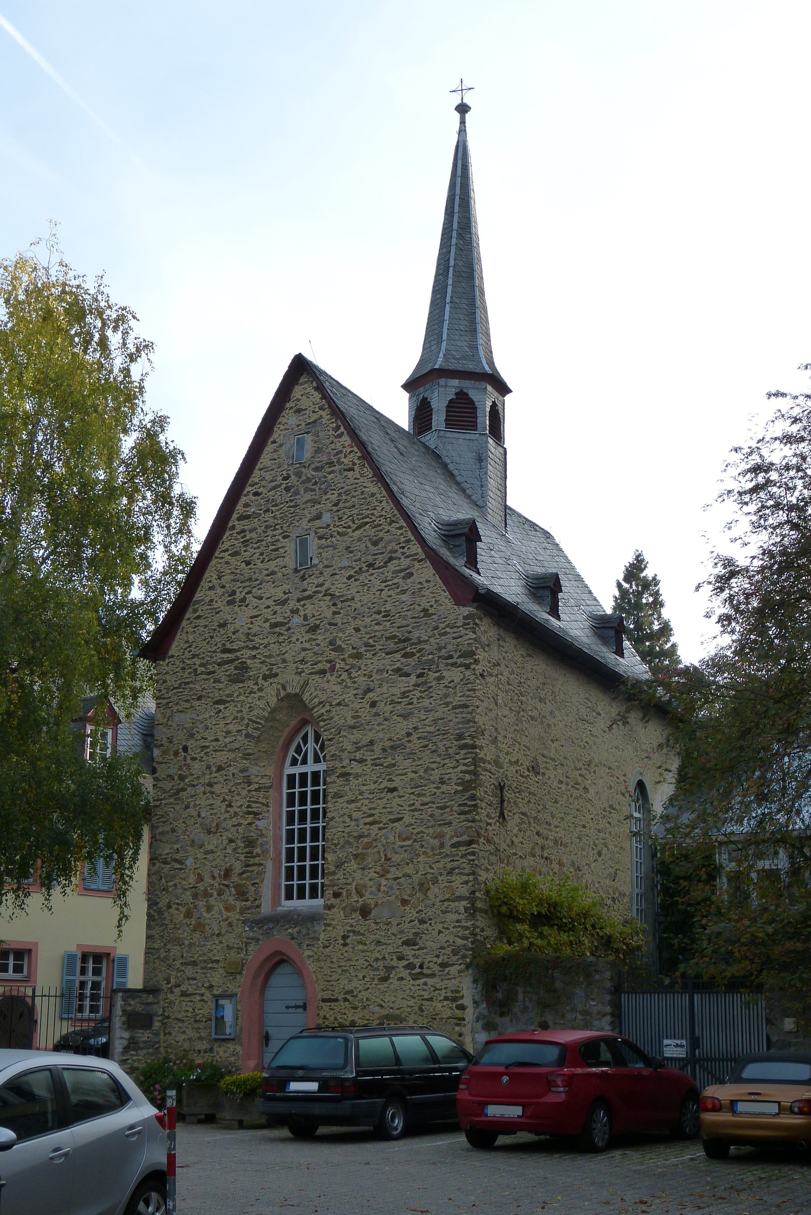 Protestant-Lutheran St. Johann Chapel in Limburg an der Lahn.